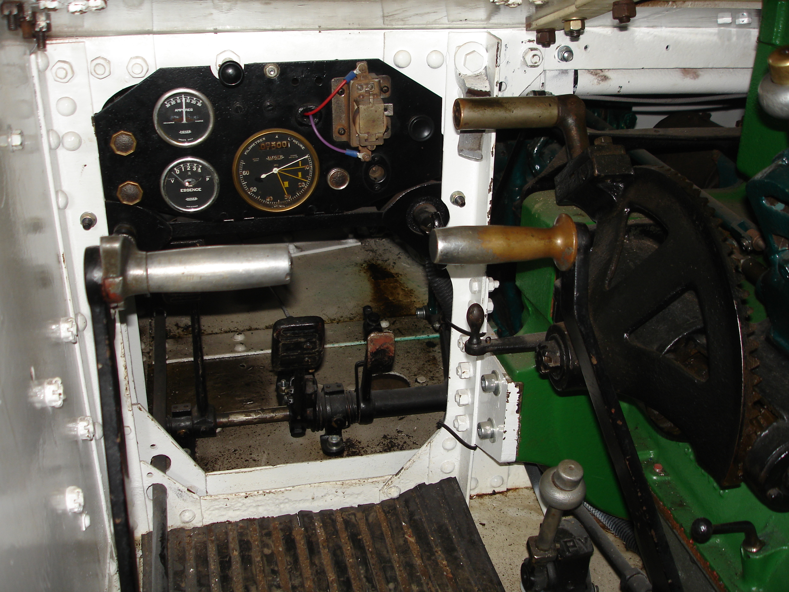 Renault UE driver's cabin from the Maginot Line's Alpine extension, ouvrage l'Agaisen